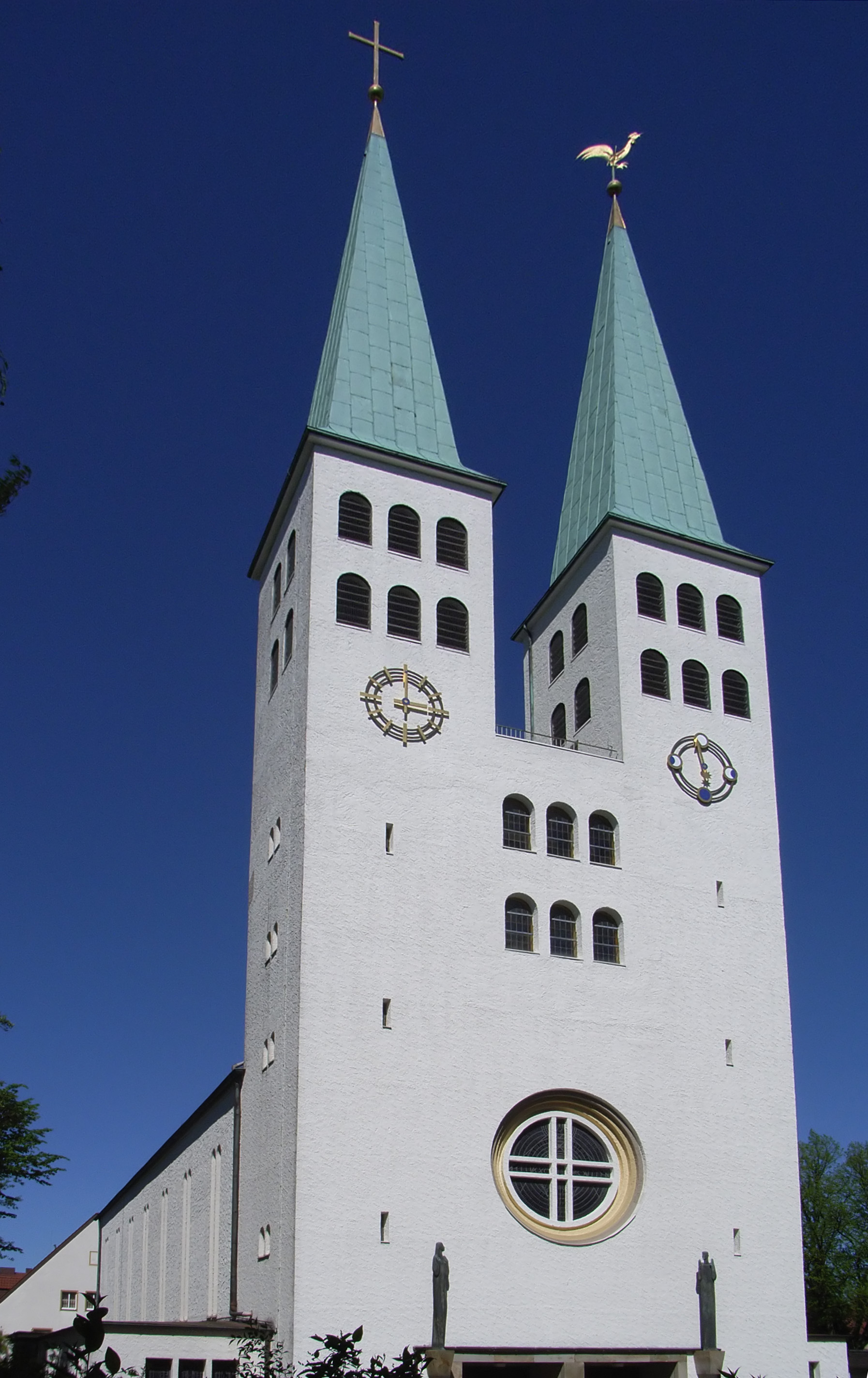 Bielefeld, Germany: Catholic Church of Our Lady